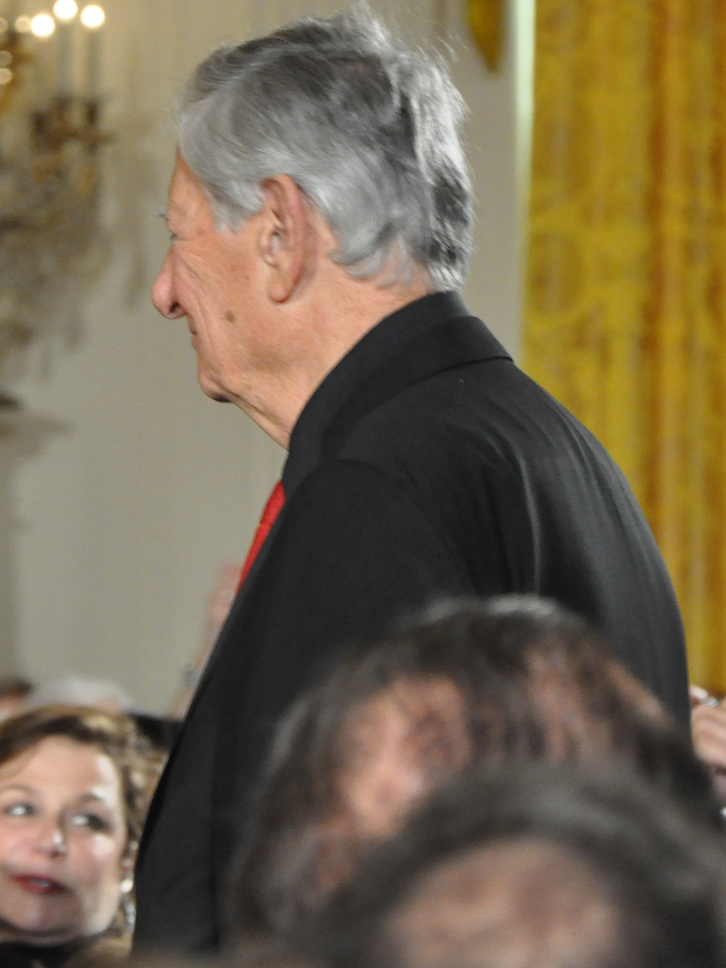 Amanda Bossard/Medill News Service